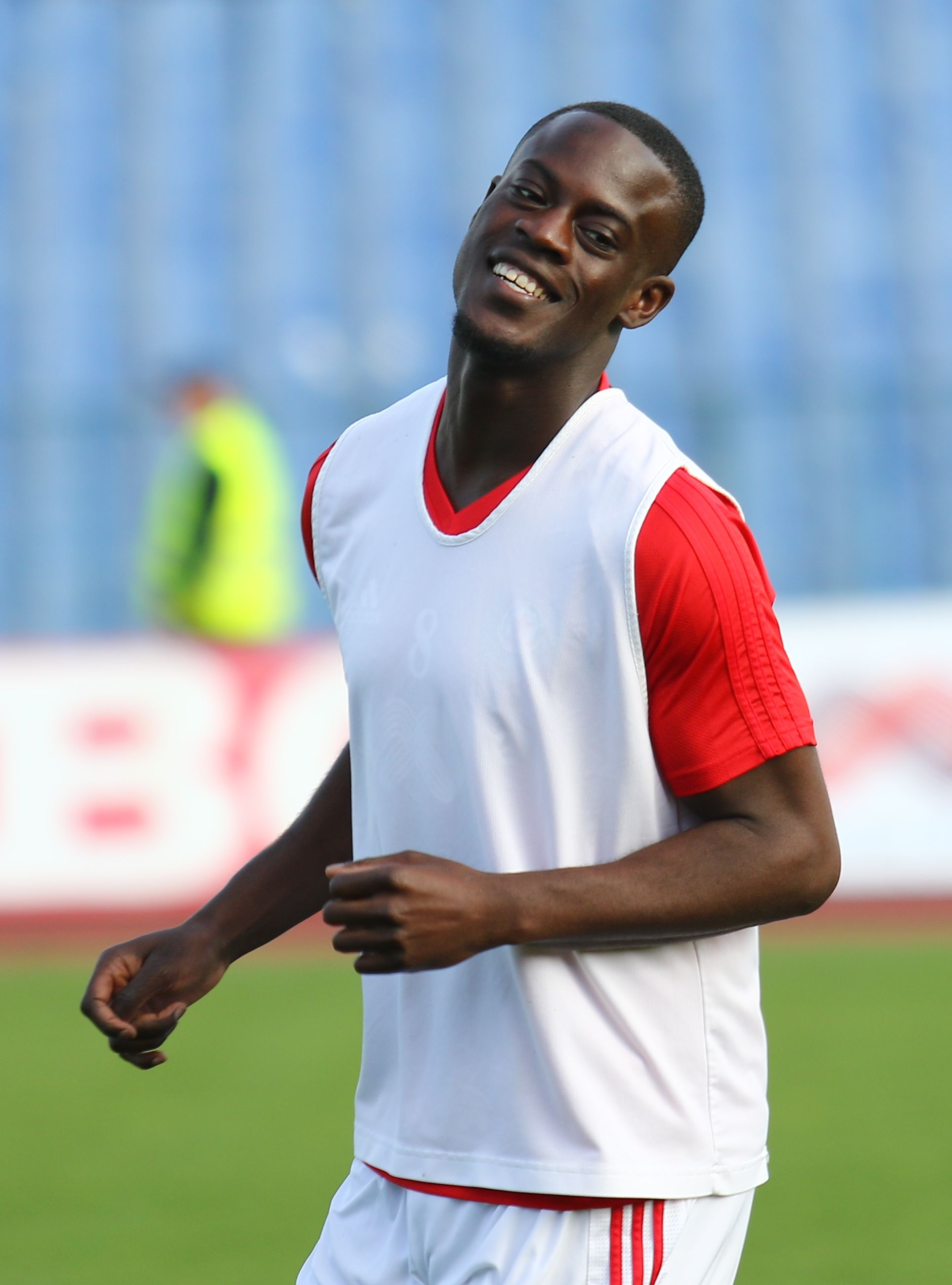 Edwin Gyasi - football player from Holland